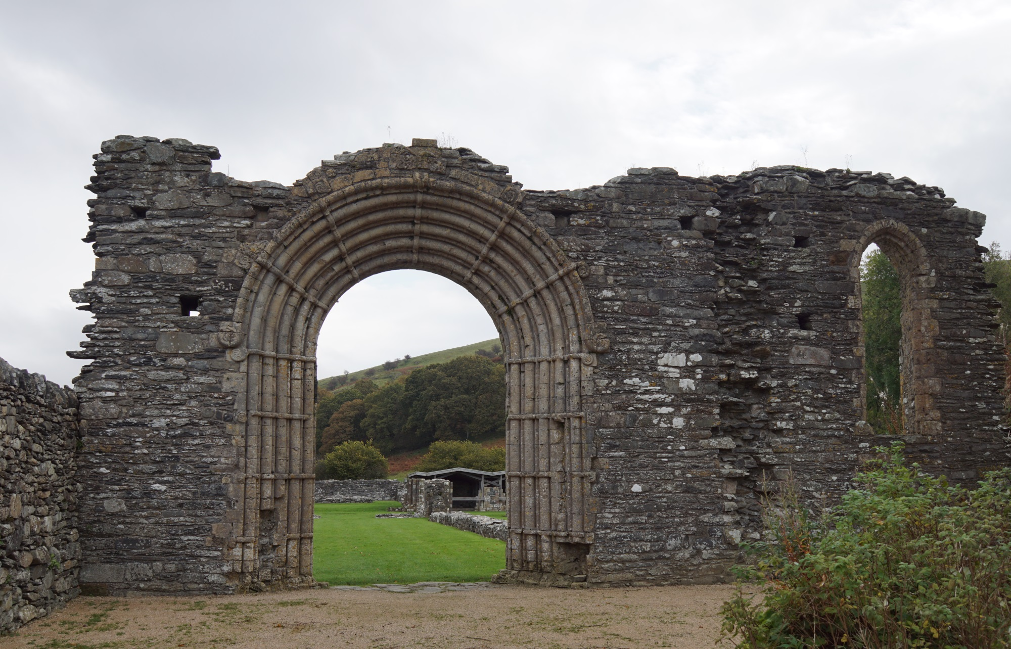 Strata Florida Abbey, Wales. West entrance of church.